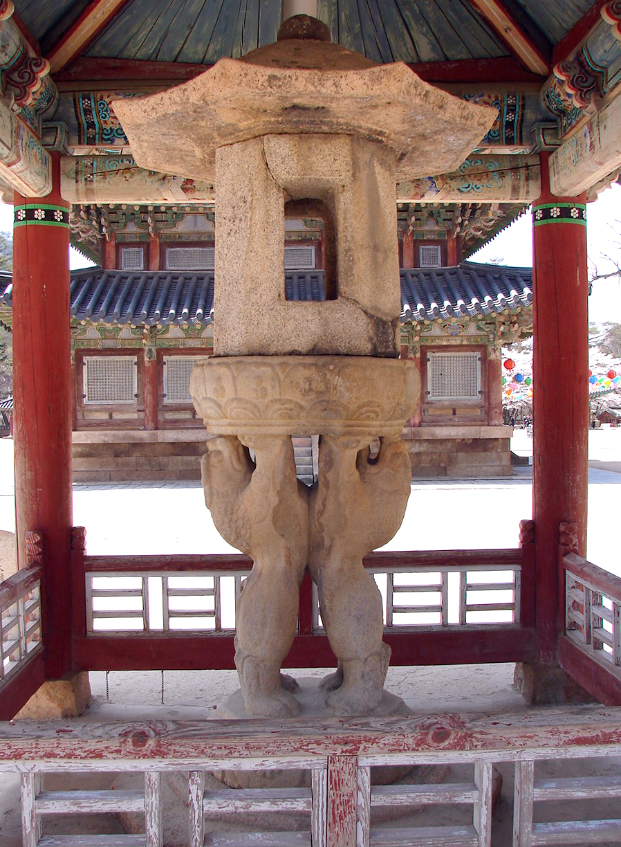 Ssangsajaseokdeung (Two Lion Stone Lamp) from the Unified Silla Period (720) at Beopjusa. Beopjusa (법주사), initially constructed in 553, is a head temple of the Jogye Order of Korean Buddhism situated on the slopes of Songnisan in Naesongni-myeon, Boeun County, in the province of Chungcheongbuk-do, South Korea. National Treasures #5.